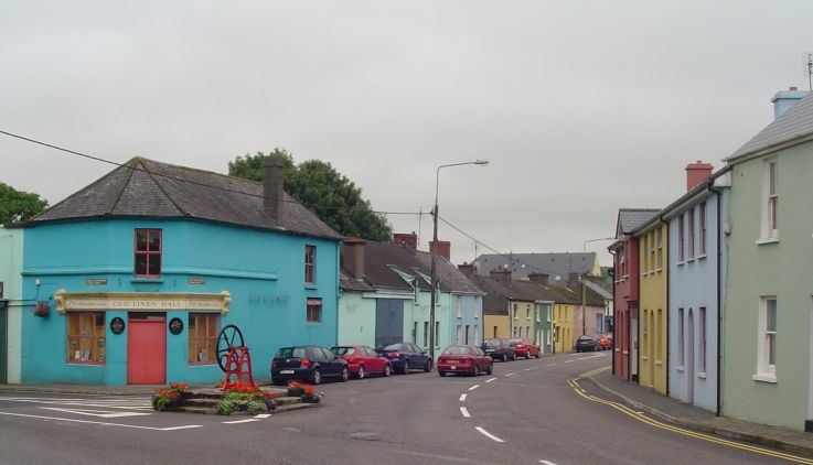 Colourful Clonakilty (co. Cork, Ireland) street corner with Old Linen Hall. Taken AUG-05.